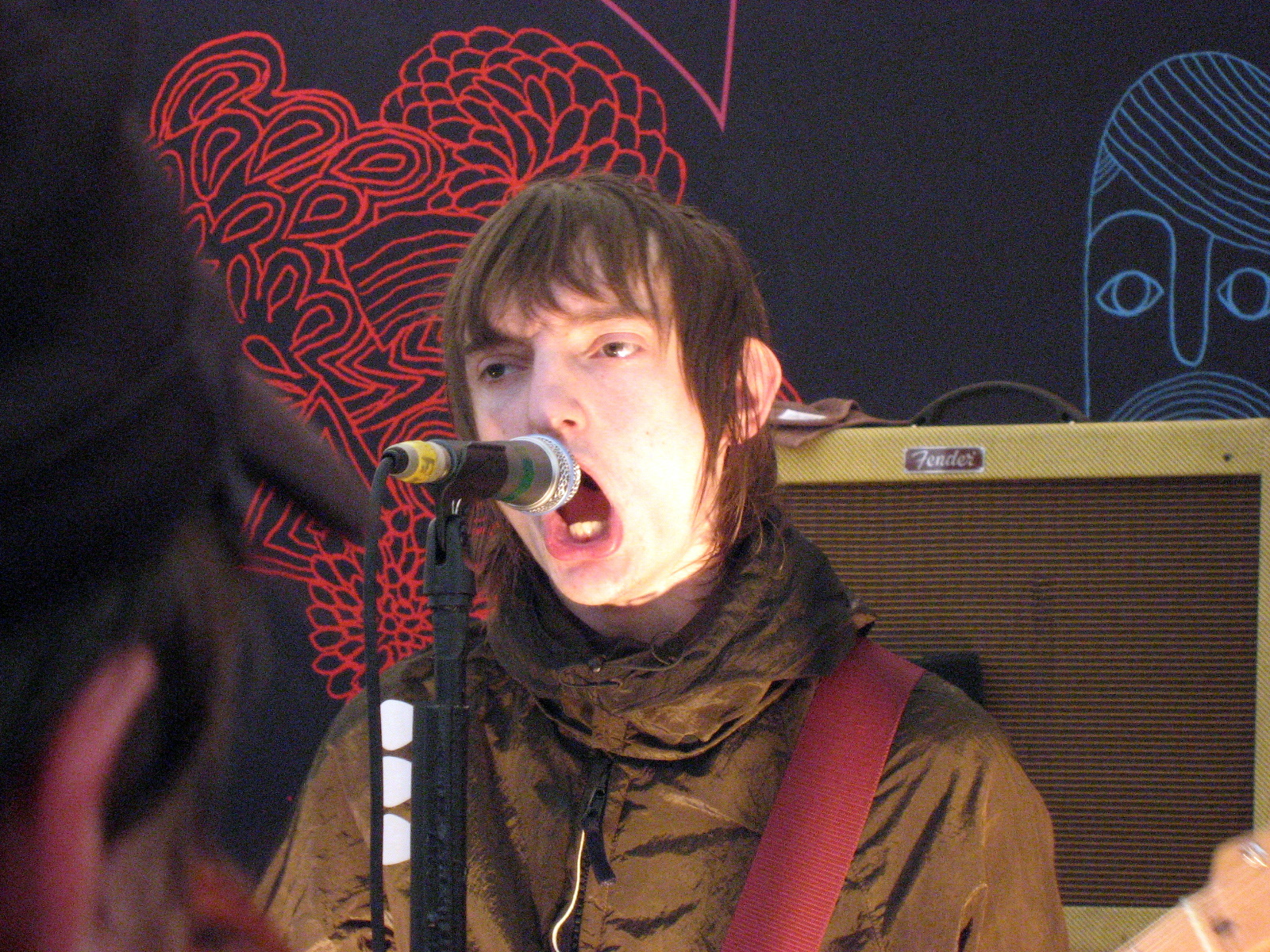 From The Enemy in the Guradian Lounge Tent